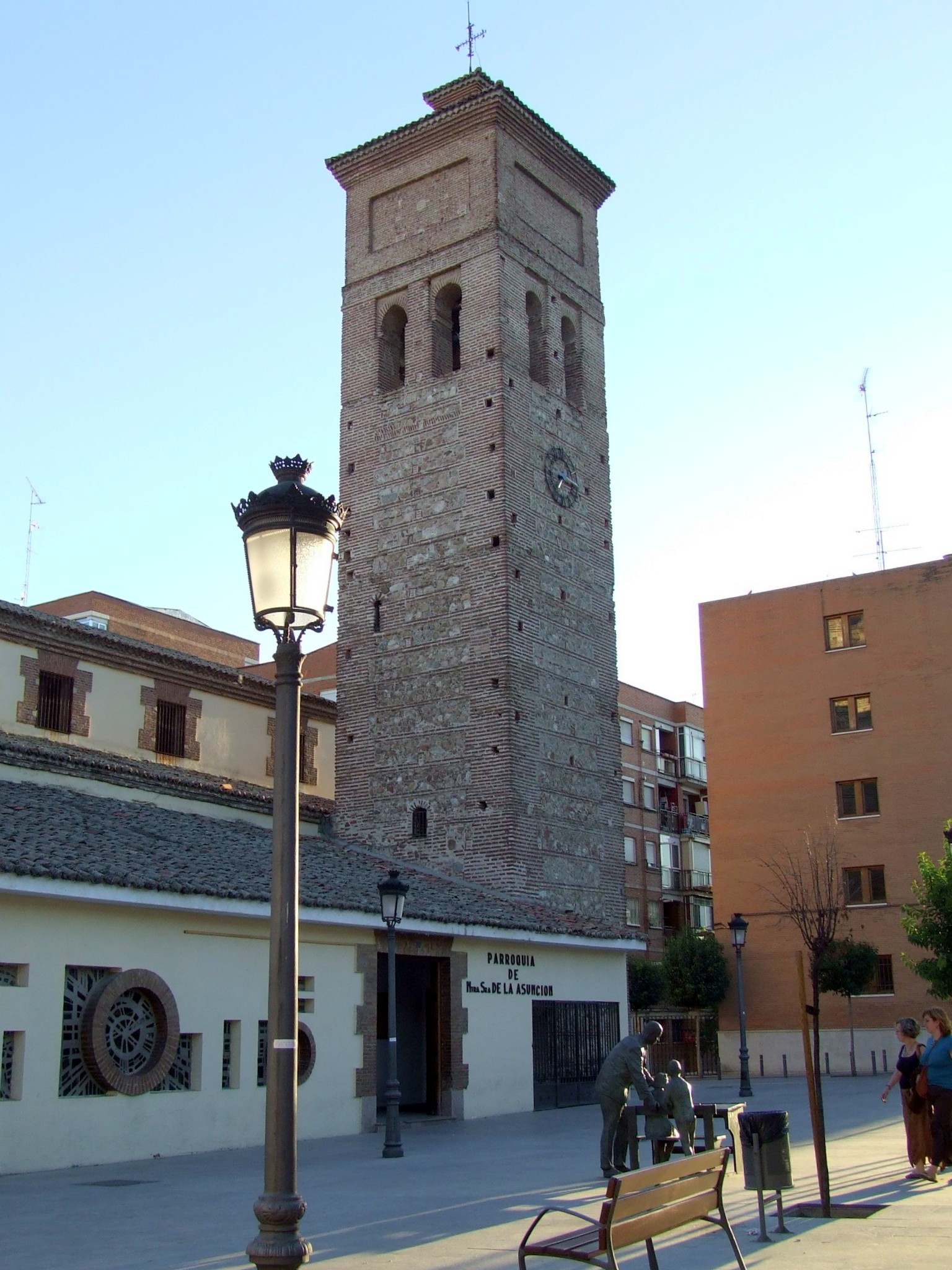 Móstoles is an autonomous community of the city Madrid in Spain.